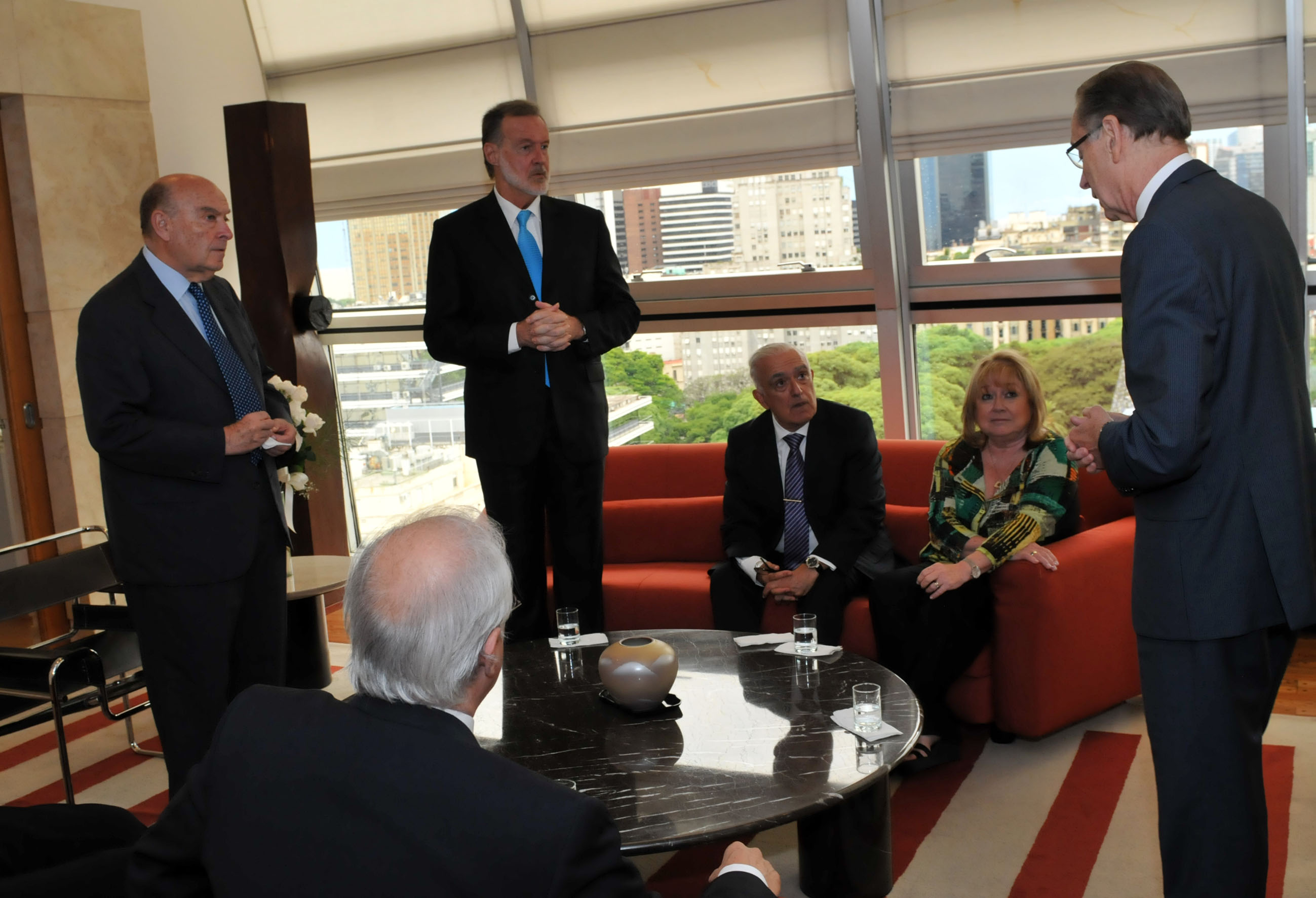 Susana Malcorra se reunió con ex Cancilleres Argentinos de la Democracia. izq a der. Susana Ruíz Cerutti, Domingo Cavallo, Jorge Taiana, Carlos Ruckauf, Rafael Bielsa y Adalberto Rodriguez Goiavarini. Foto Roberto Daniel Garagiola